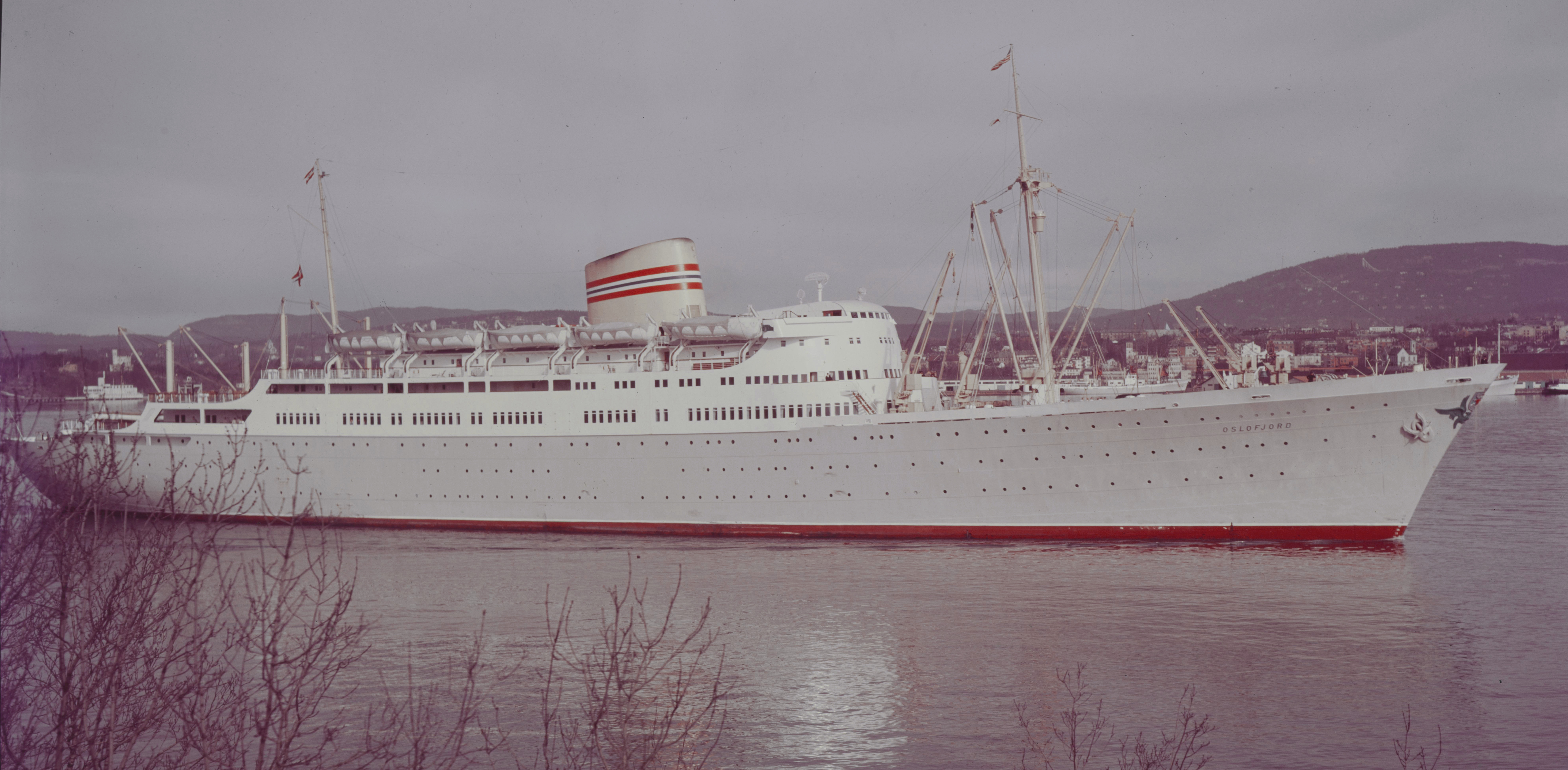 Den Norske Amerikalinjes MS Oslofjord built in 1949.